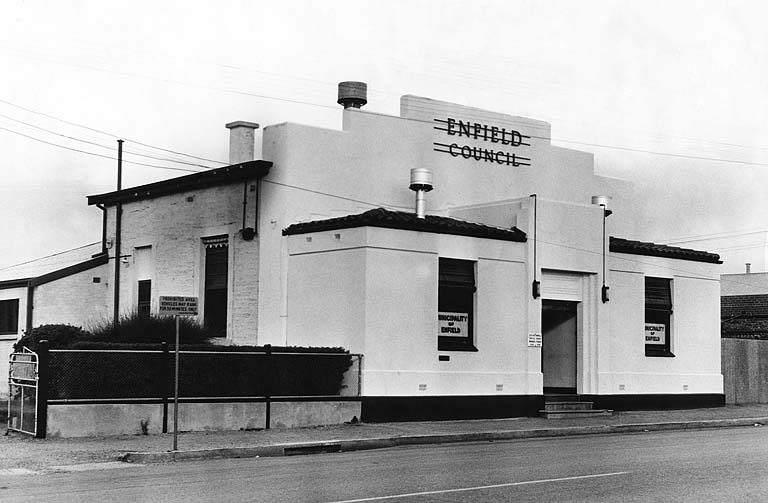 Second Enfield Council Chamber, located Regency Road, Enfield. Erected in 1927 and demolished c.1960.